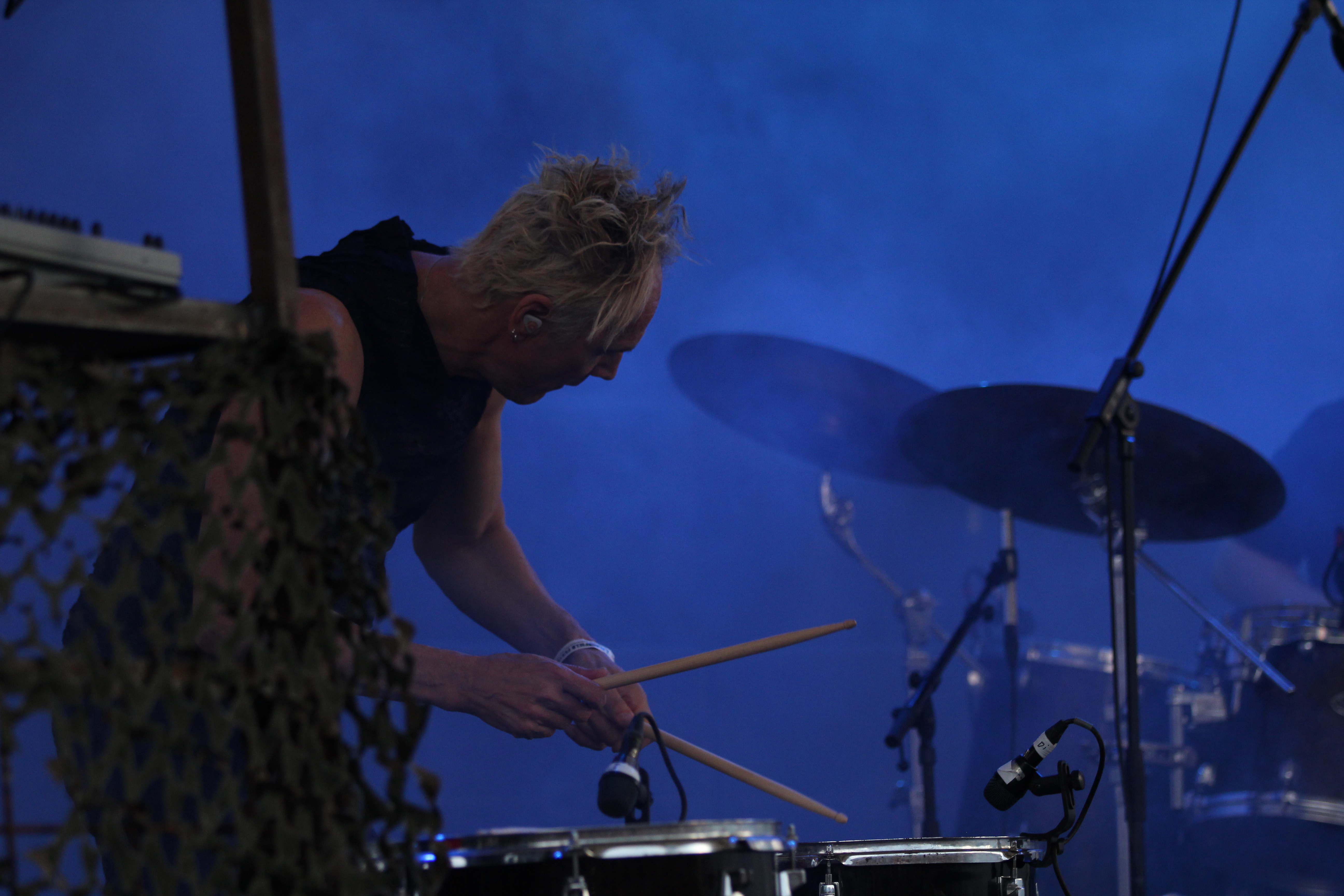 The Canadian electronica band Front Line Assembly at the Blackfield festival 2014 in Gelsenkirchen